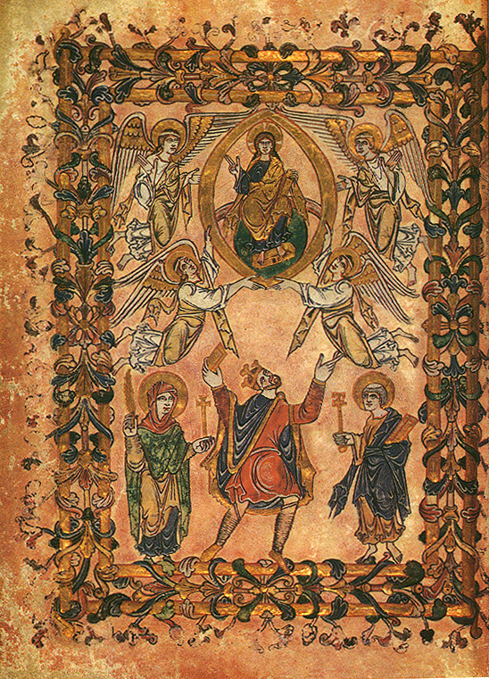 Miniature from the New Minster Charter, 966, showing King Edgar flanked by the Virgin Mary and St Peter presenting the charter to Christ.